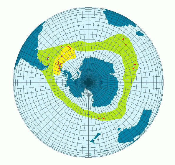 Geographic range of Gentoo Penguin's subspecies.